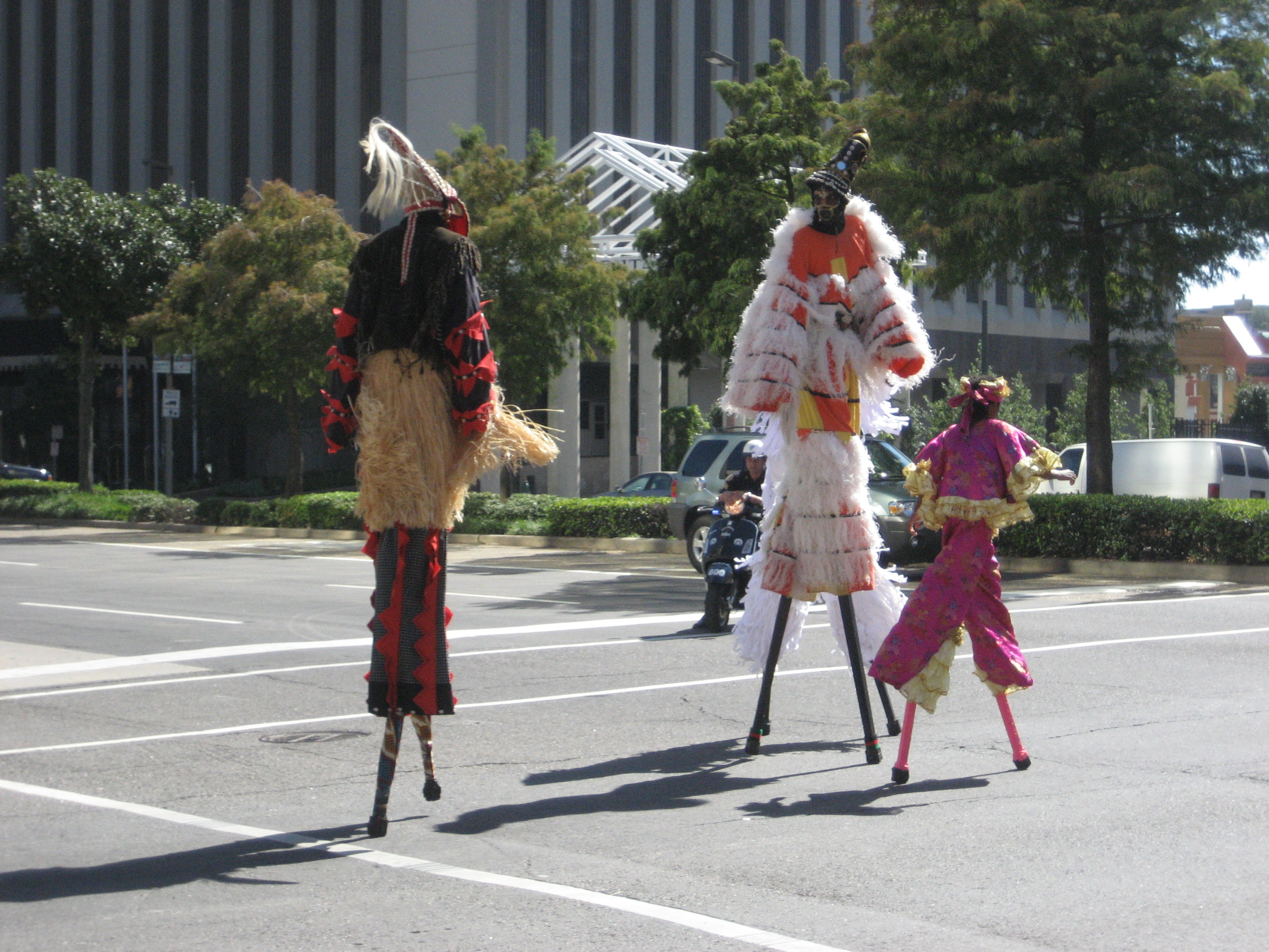 Costumed stilters at Poydras Street, part of small "Second Line" parade in the New Orleans Central Business District